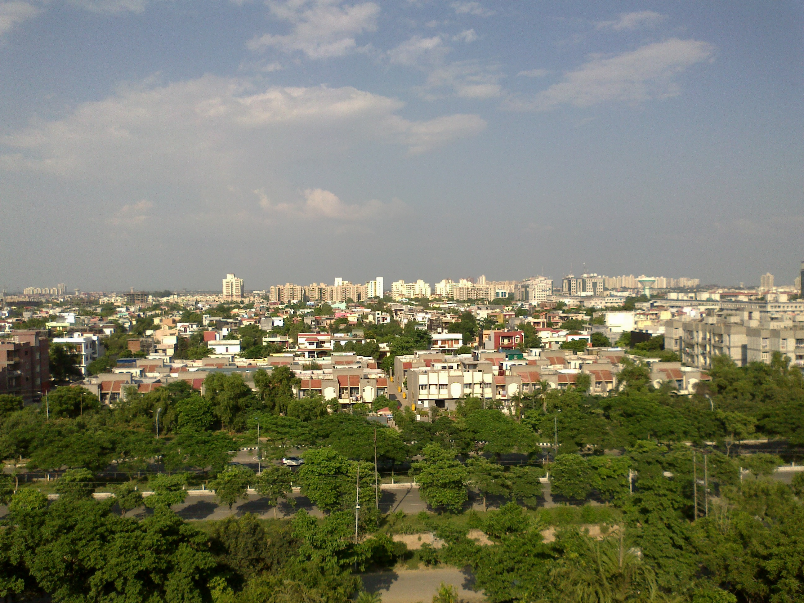 view of greater noida taken from one of the buildings of greater noida.